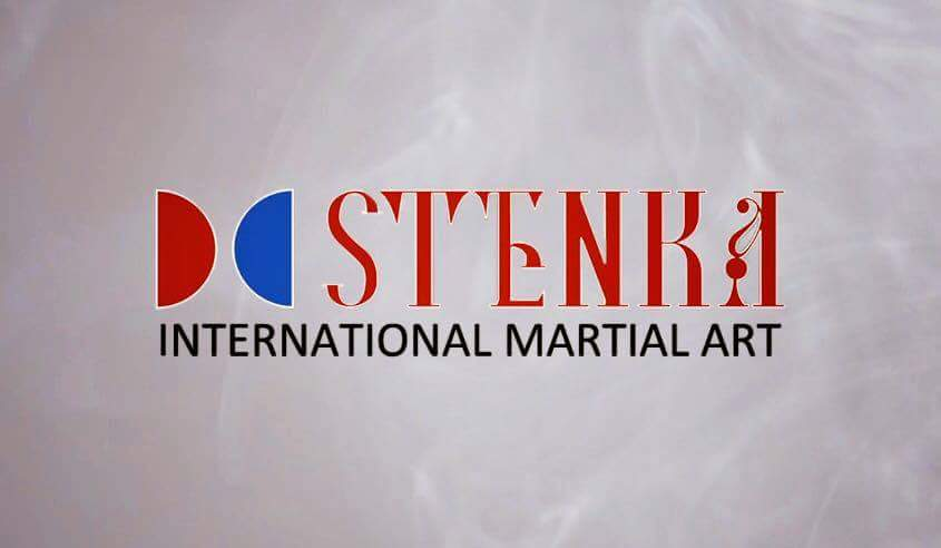 Logo Stenka International Martial Arts